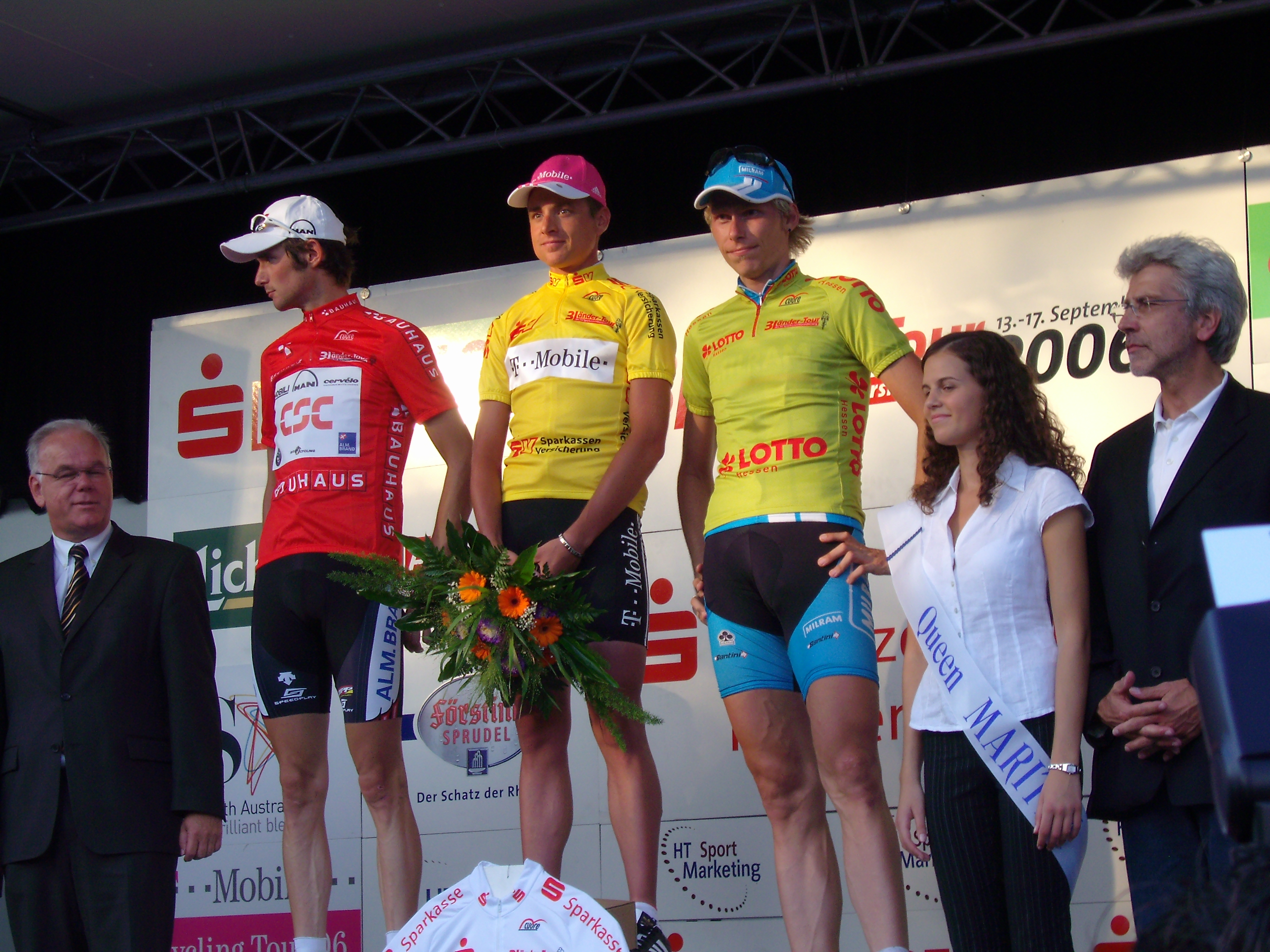 The jersey wearers at Stage 1 of the 2006 3-Länder-Tour in Kassel